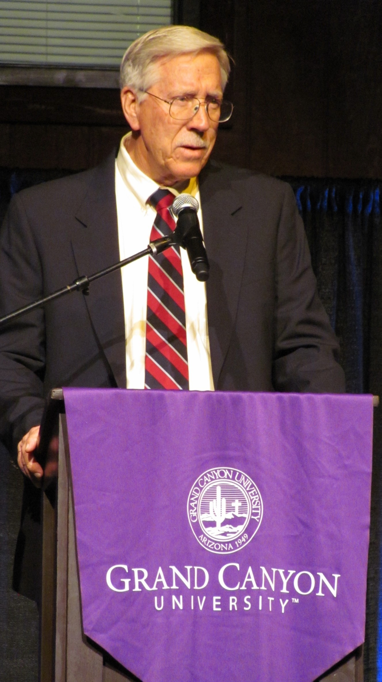 Picture of Coach Lindsey accepting GCU Hall of Fame Induction